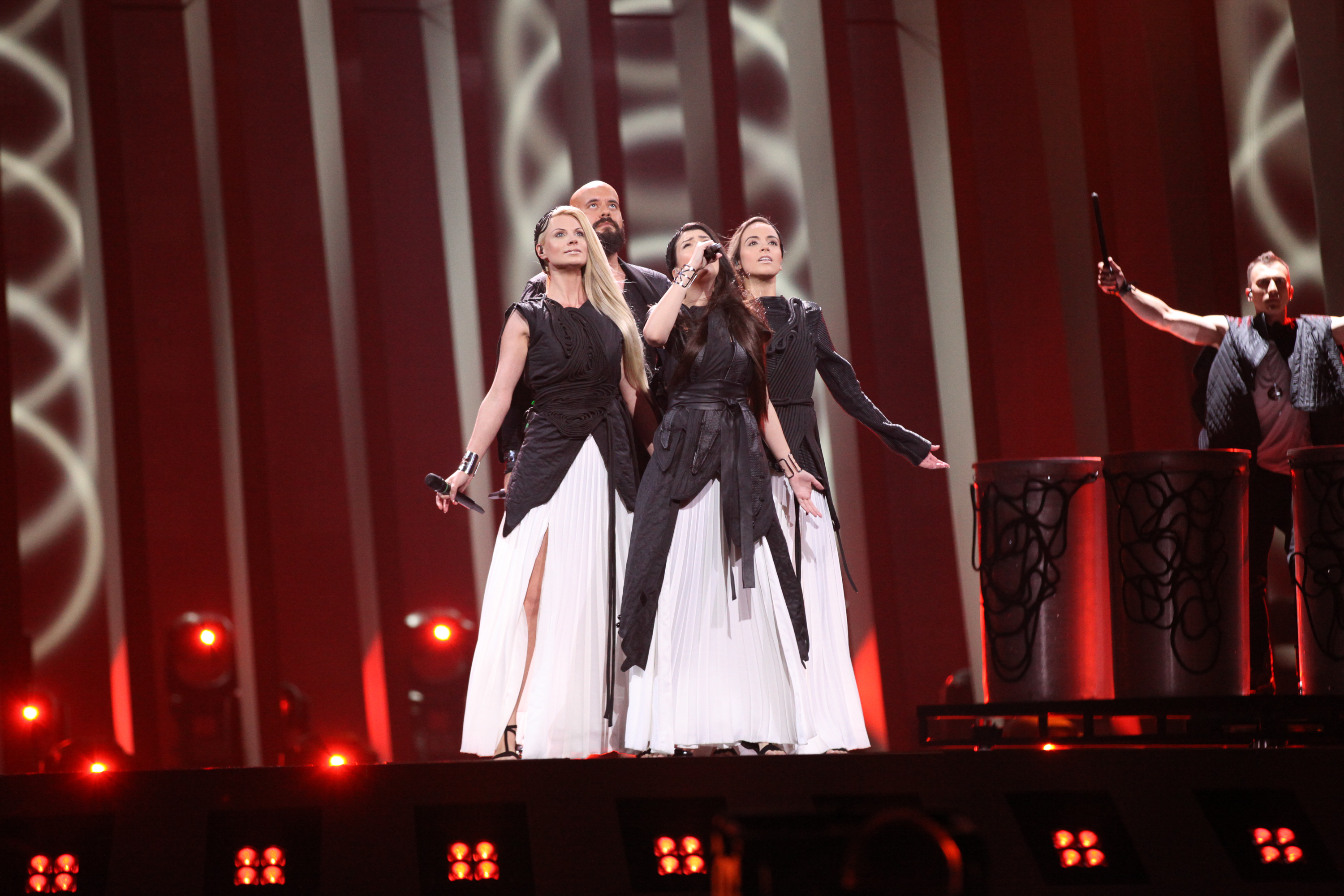 Sanja Ilić & Balkanika representing Serbia with the song "Nova deca" during a rehearsal before the second semi final of the Eurovision Song Contest 2018 in Lisbon.